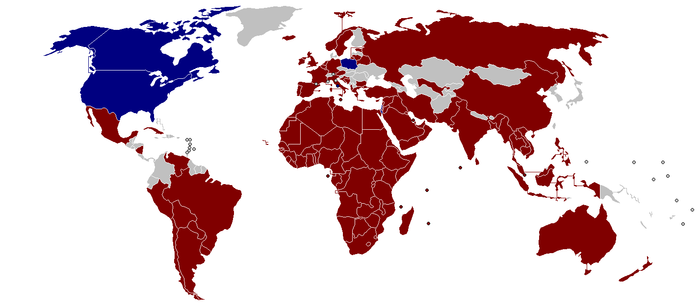 Countries shaded are those that criticized the Israeli raid.